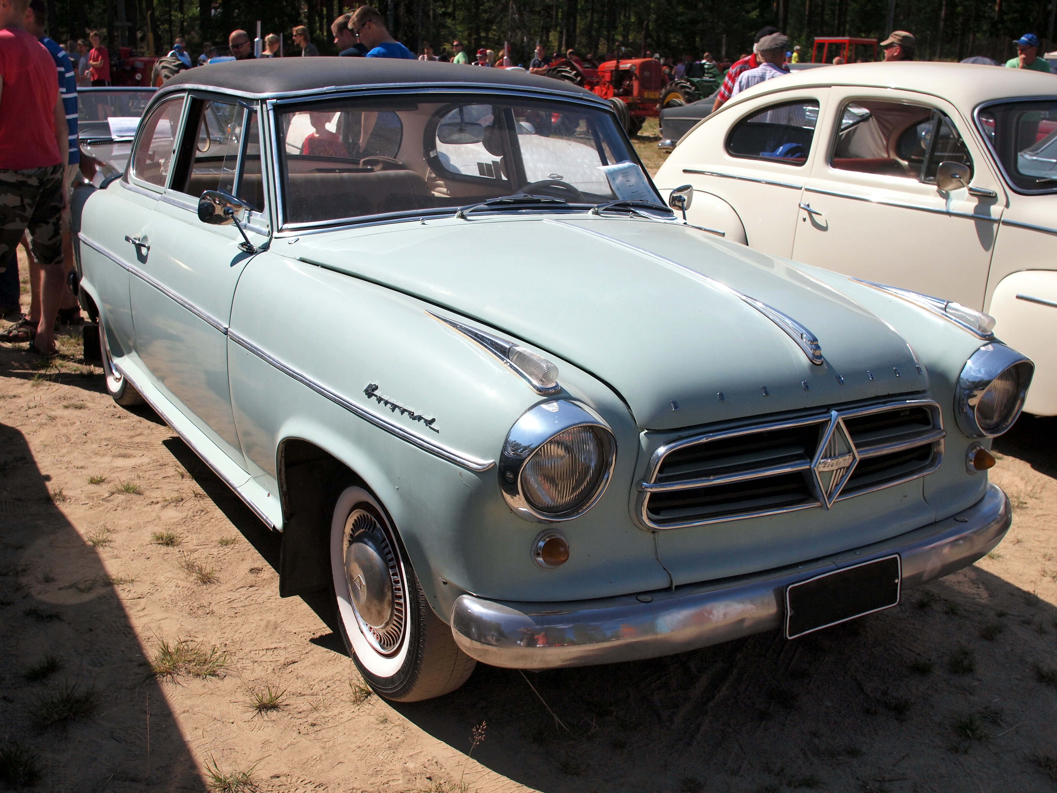 Borgward Isabella TS 1961 pictured in Lappeenranta, Finland.